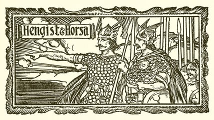 Engraving depicting the brothers Hengist and Horsa, legendary leaders of the English invasion of Britain.